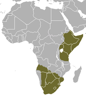 Black-backed Jackal range